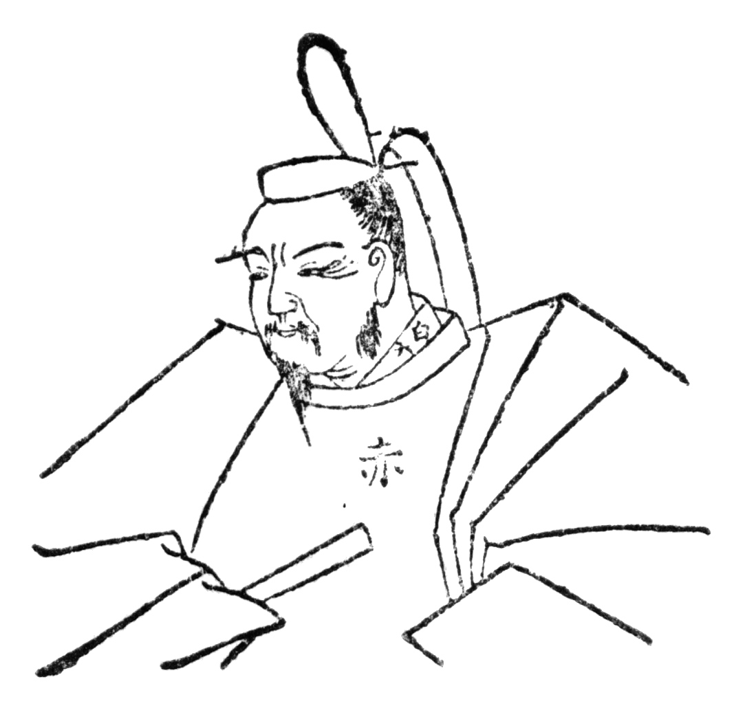 Portrait of Hōjō Tokimasa